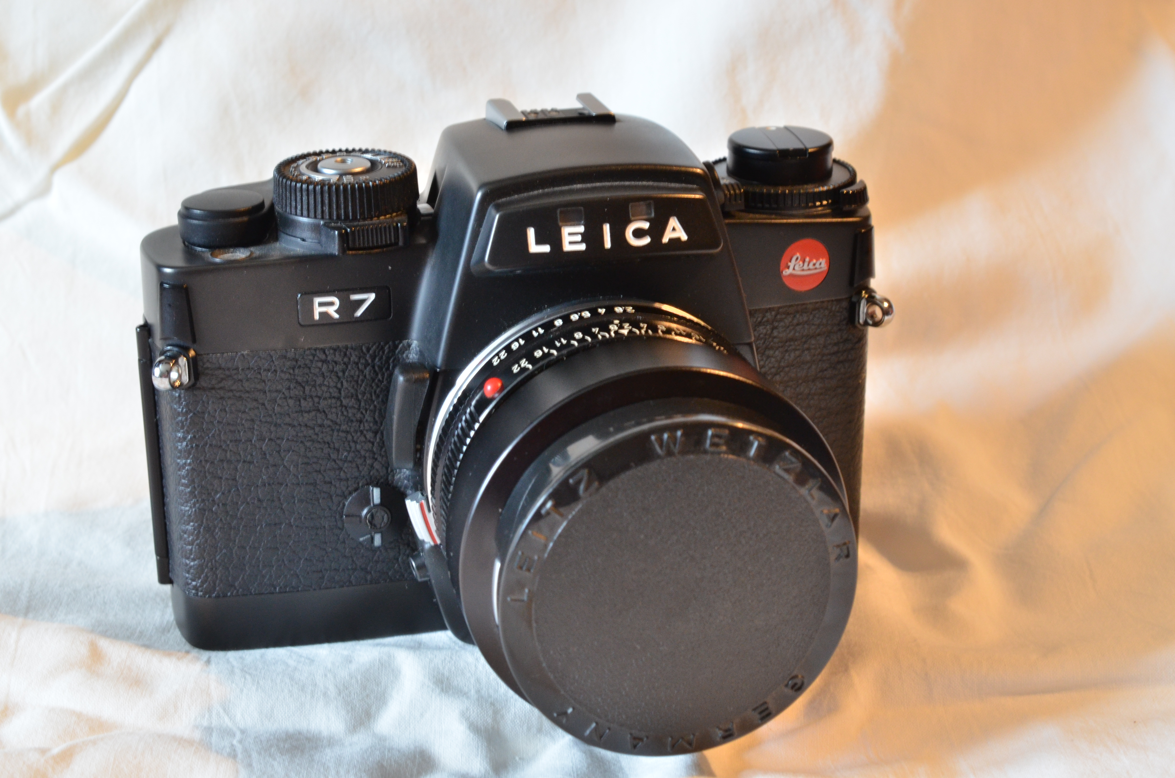 Leica SLR camera